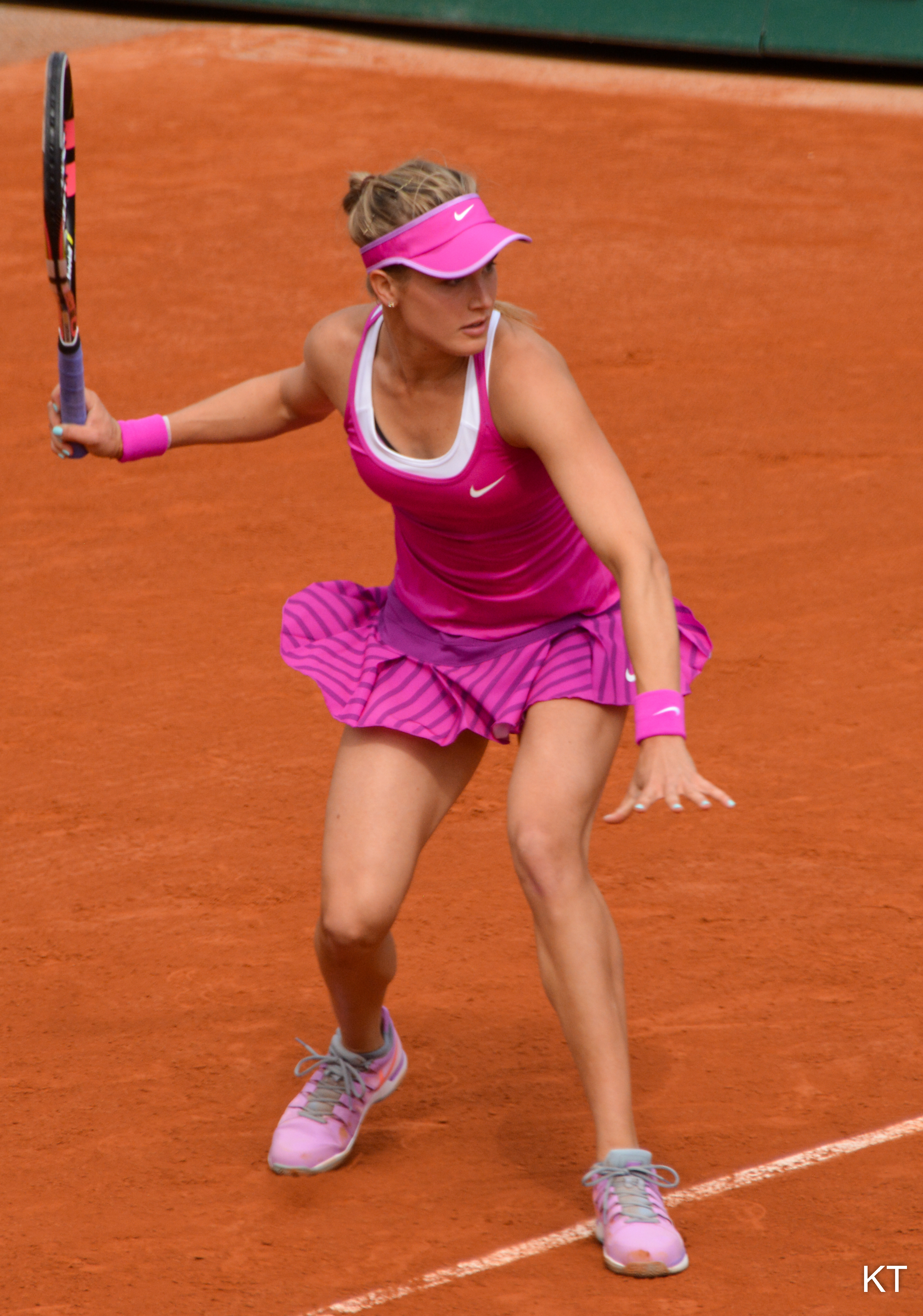 Eugenie Bouchard during her first round match with Kristina Mladenovic. Day 3 of Roland Garros 2015.